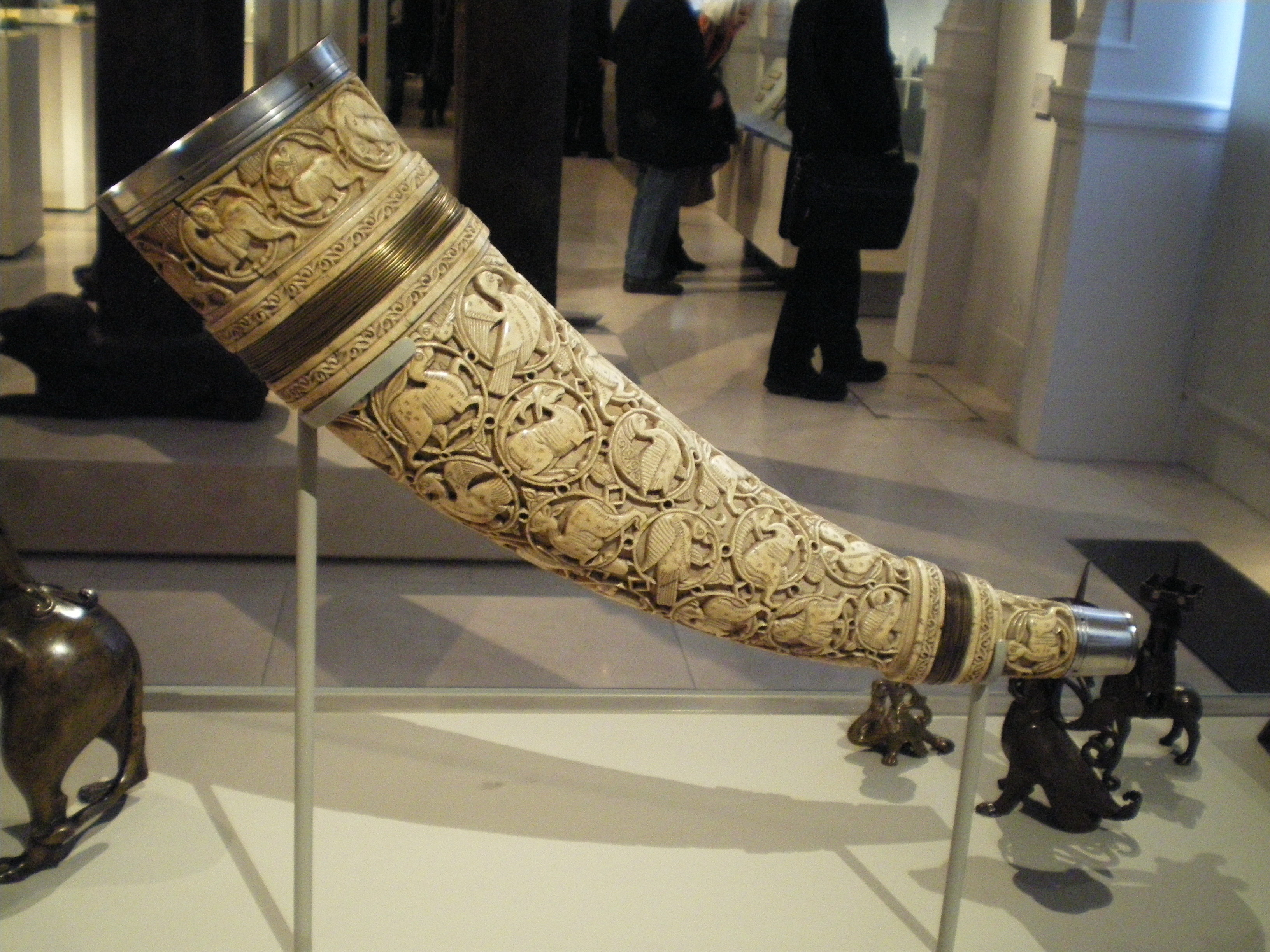 Oliphant 1000-1100 Possibly Southern Italy, Amalfi or Salerno Ivory with metal mounts An oliphant is an ivory horn. This one is carved with a network of interconnected circles containing birds, antelopes, hares and other, more fantastic creatures. The style of decoration is derived from Islamic art, possibly textiles or ceramics produced in Cairo between the 10th and 12th centuries. Collection ID: 7953-1862 This photo was taken as part of Britain Loves Wikipedia in February 2010 by art_traveller.